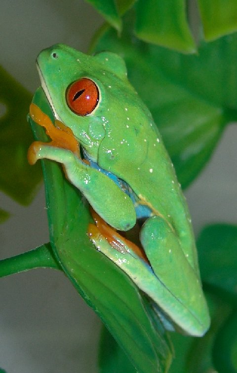 Red-eyed tree frog of Central and South America